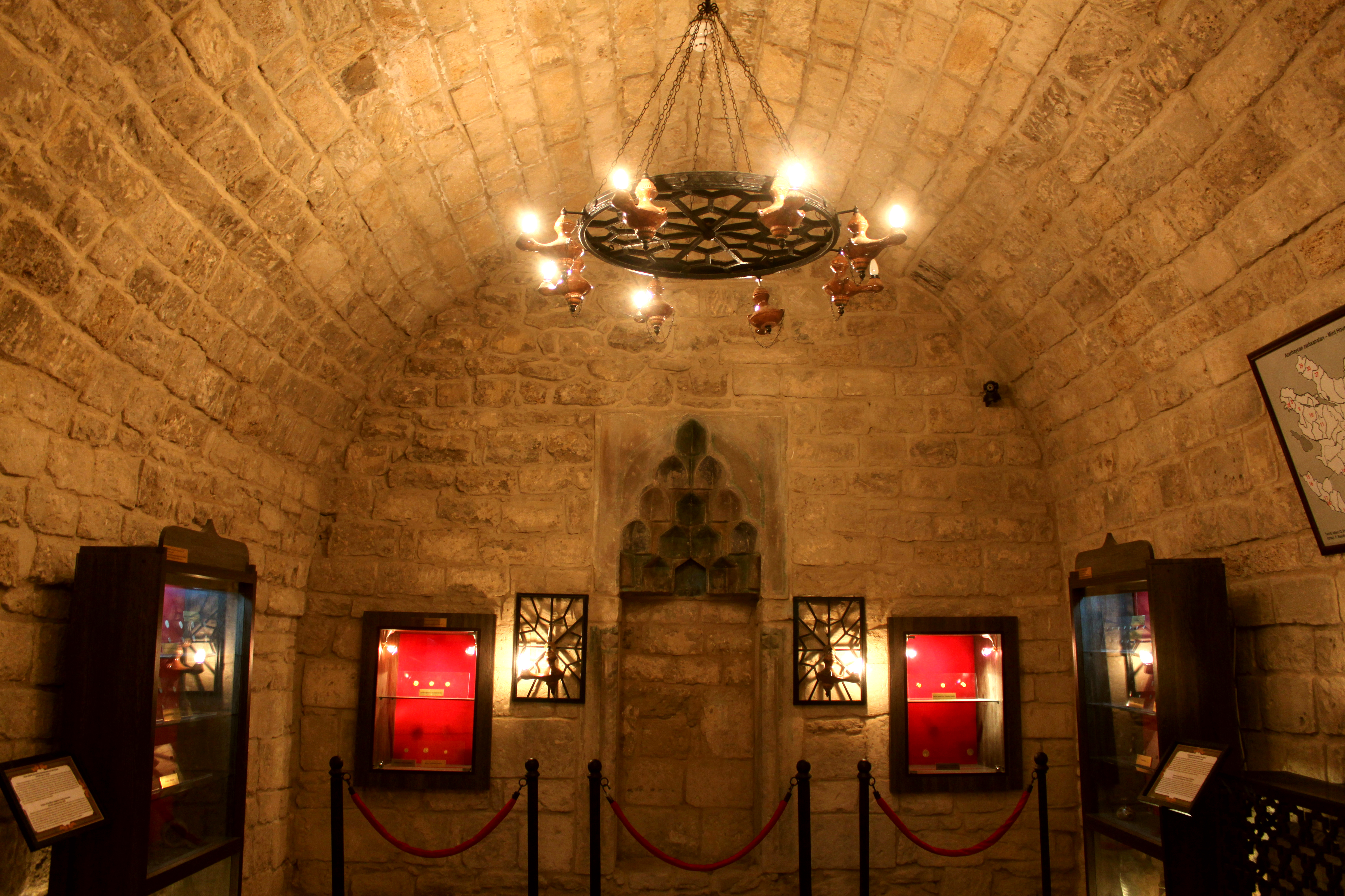 Interior of the China mosque, in the Old City of Baku, Azerbaijan. Built in the 14th century.